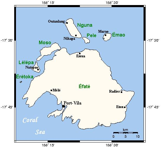 Éfaté and neighbouring islands